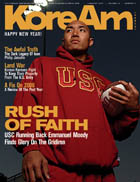 Magazine cover of KoreAm from January 2007, Emmanuel Moody